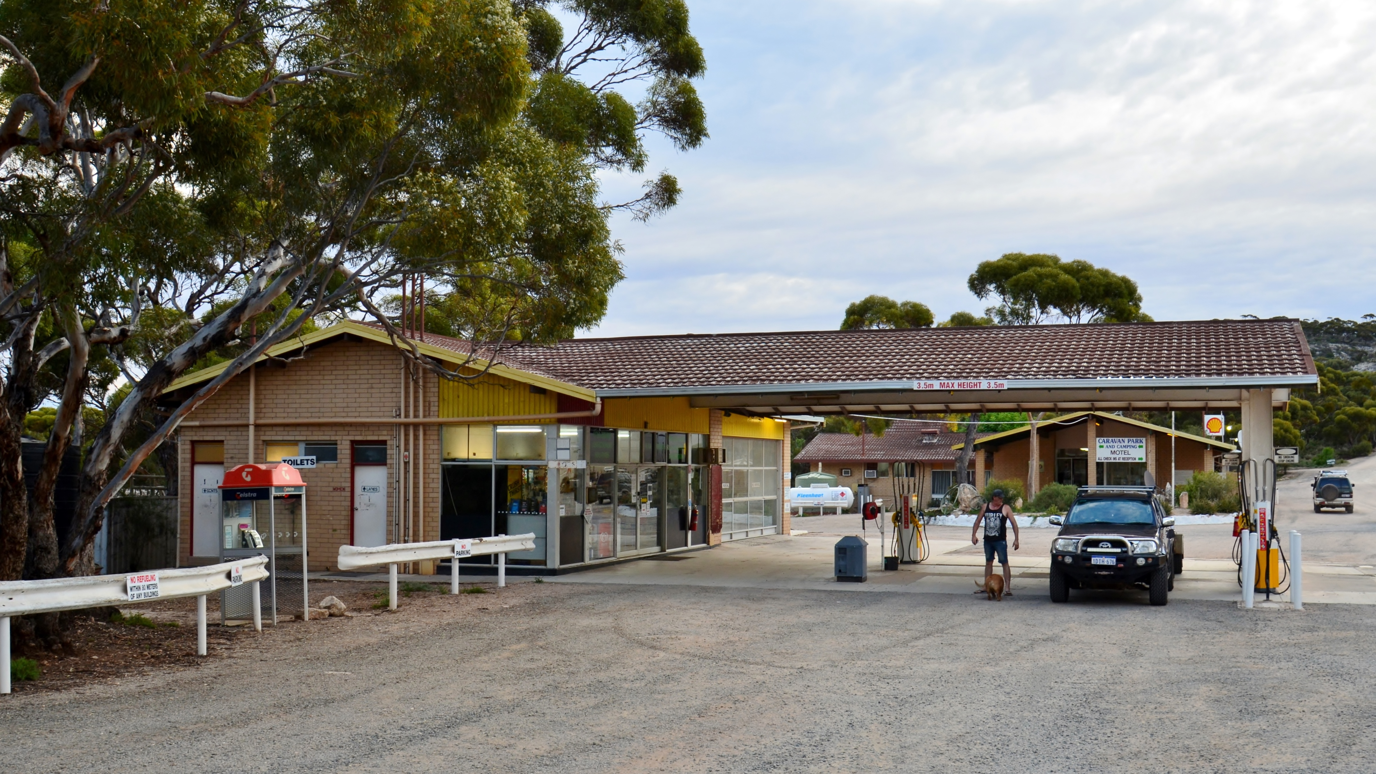 View of the roadhouse at Madura, Western Australia